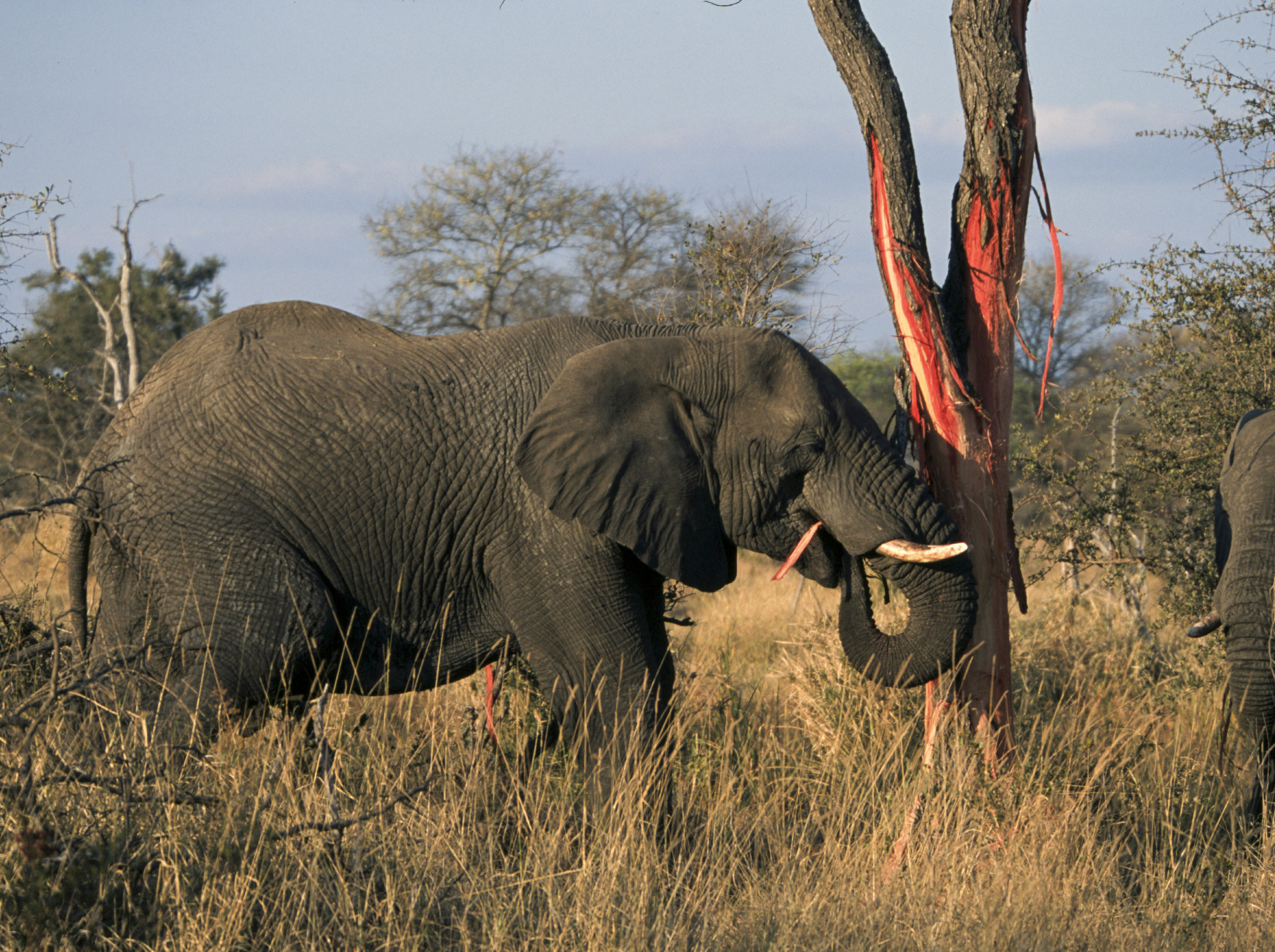 African Bush Elephant (Loxodonta Africana) in Kruger National Park, South Africa stripping and eating tree bark.